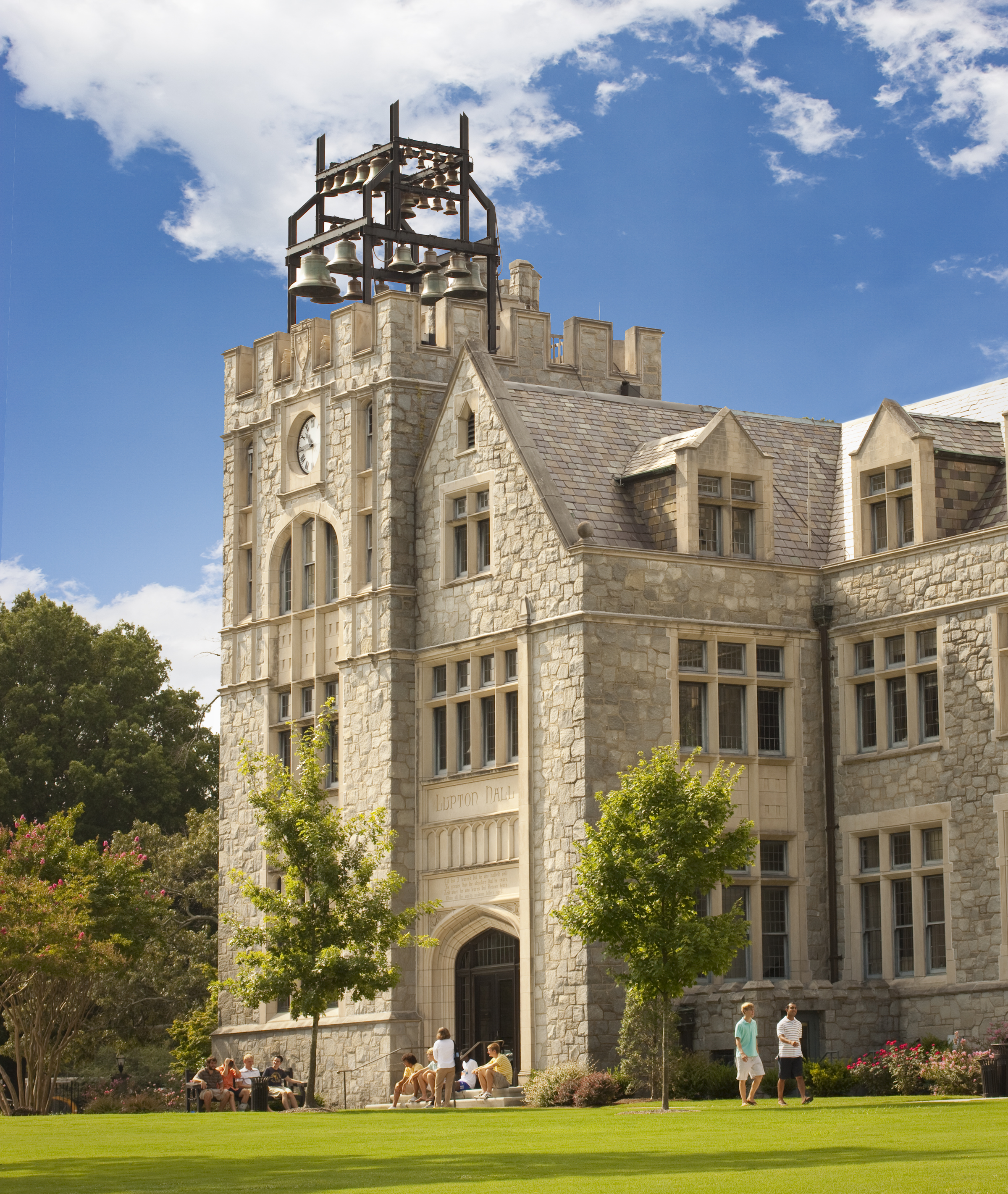 The Lale Özgörkey Bell Tower, Oglethorpe University, Atlanta, GA with a 42-bell carillon. It is the only cast bronze bell carillon in Georgia.